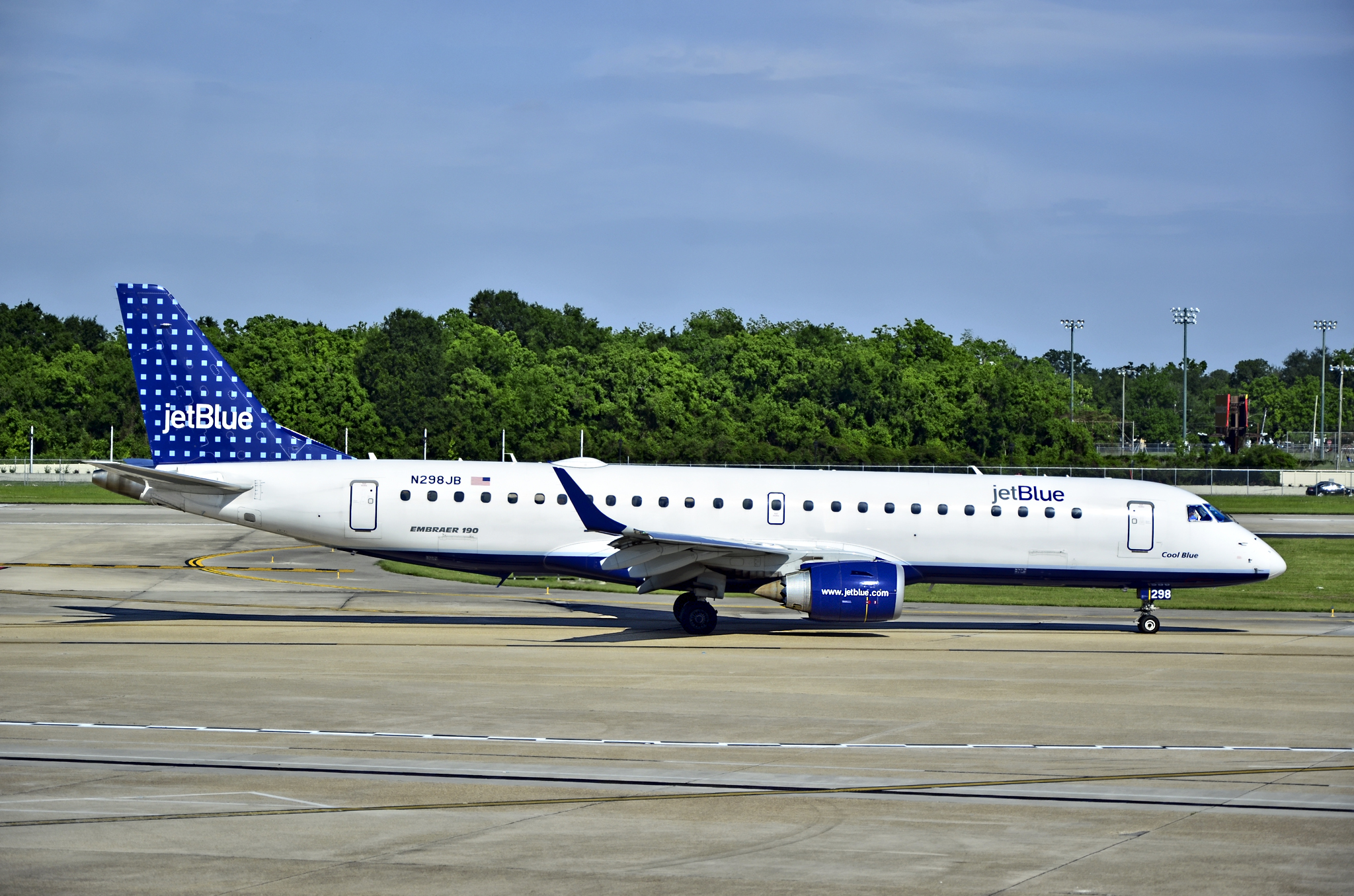 Louis Armstrong New Orleans International Airport (IATA: MSY, ICAO: KMSY, FAA LID: MSY) TDelCoro May 12, 2013